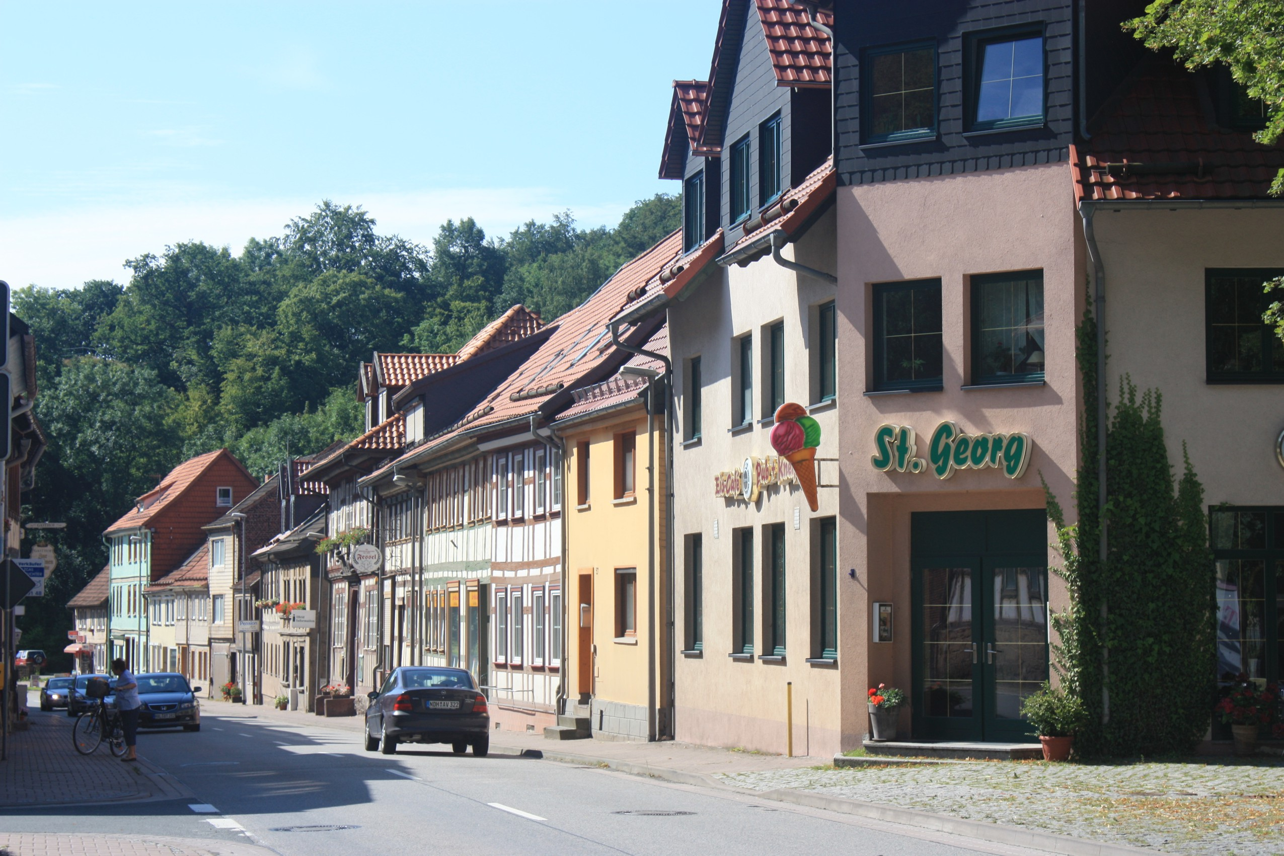 Ilfeld, the upper part of the Ilgerstraße